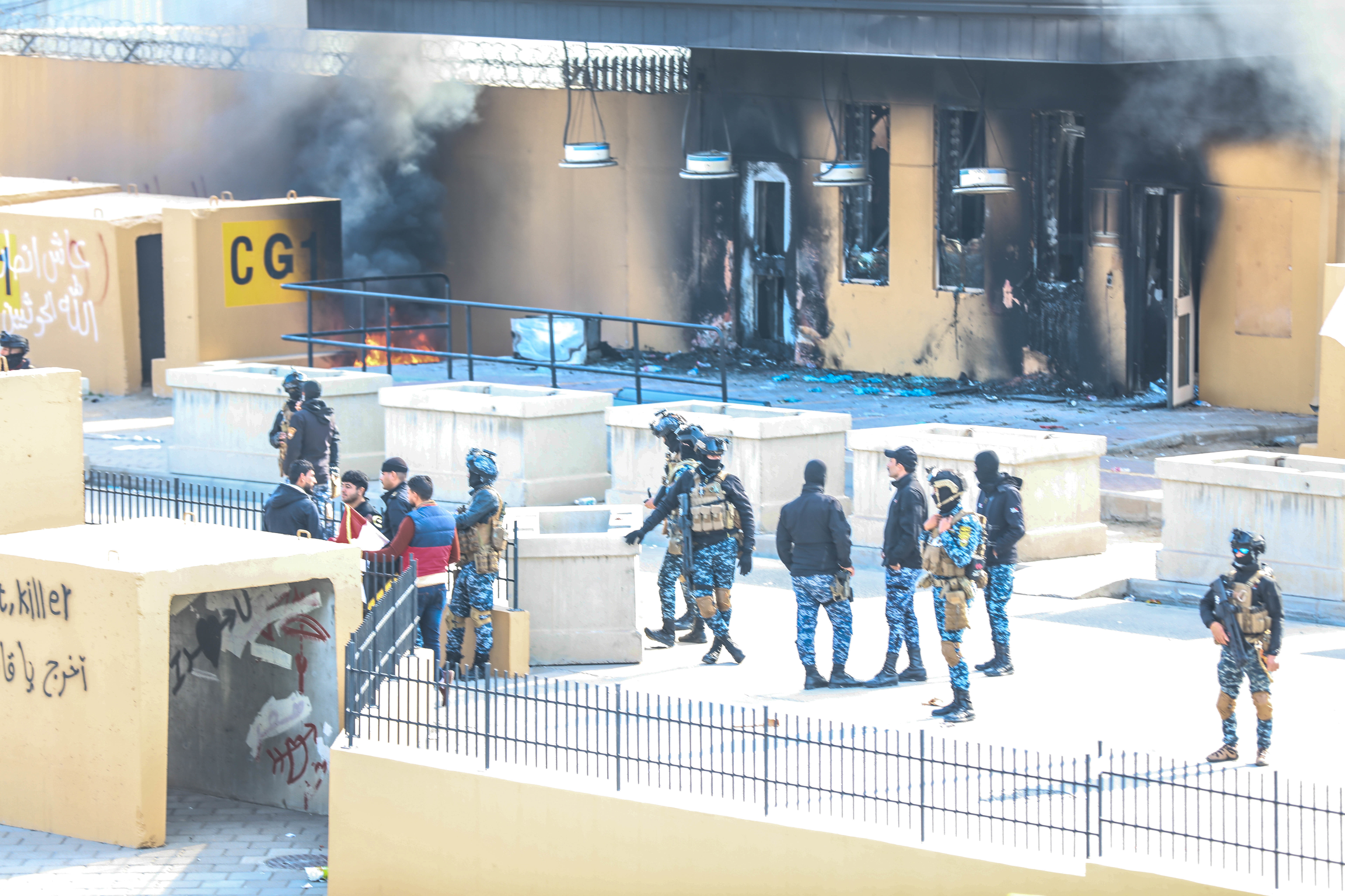 Iraqi Army officers increase the number of soldiers during the second day of protests at the U.S. Embassy in Baghdad, Iraq, Jan. 1, 2020.